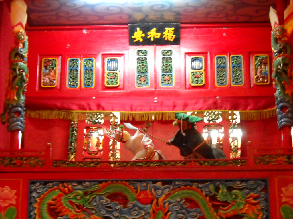 Glove Puppetry show playing Xue Ren-gui story, Jakarta, Indonesia.